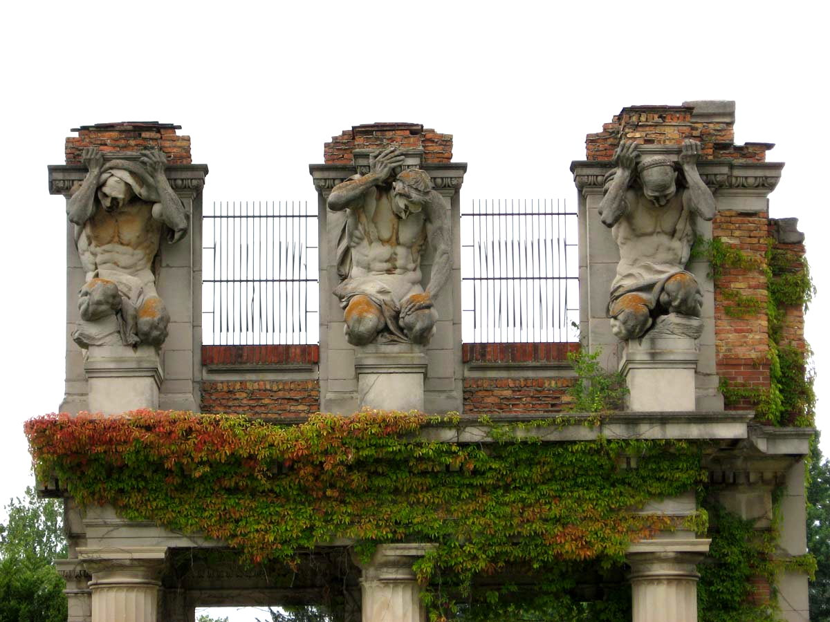 Fromt eh St. Paul Building in NYC, destroyed and the atlantids moved to Holliday Park in Indianapolis, IN, USA